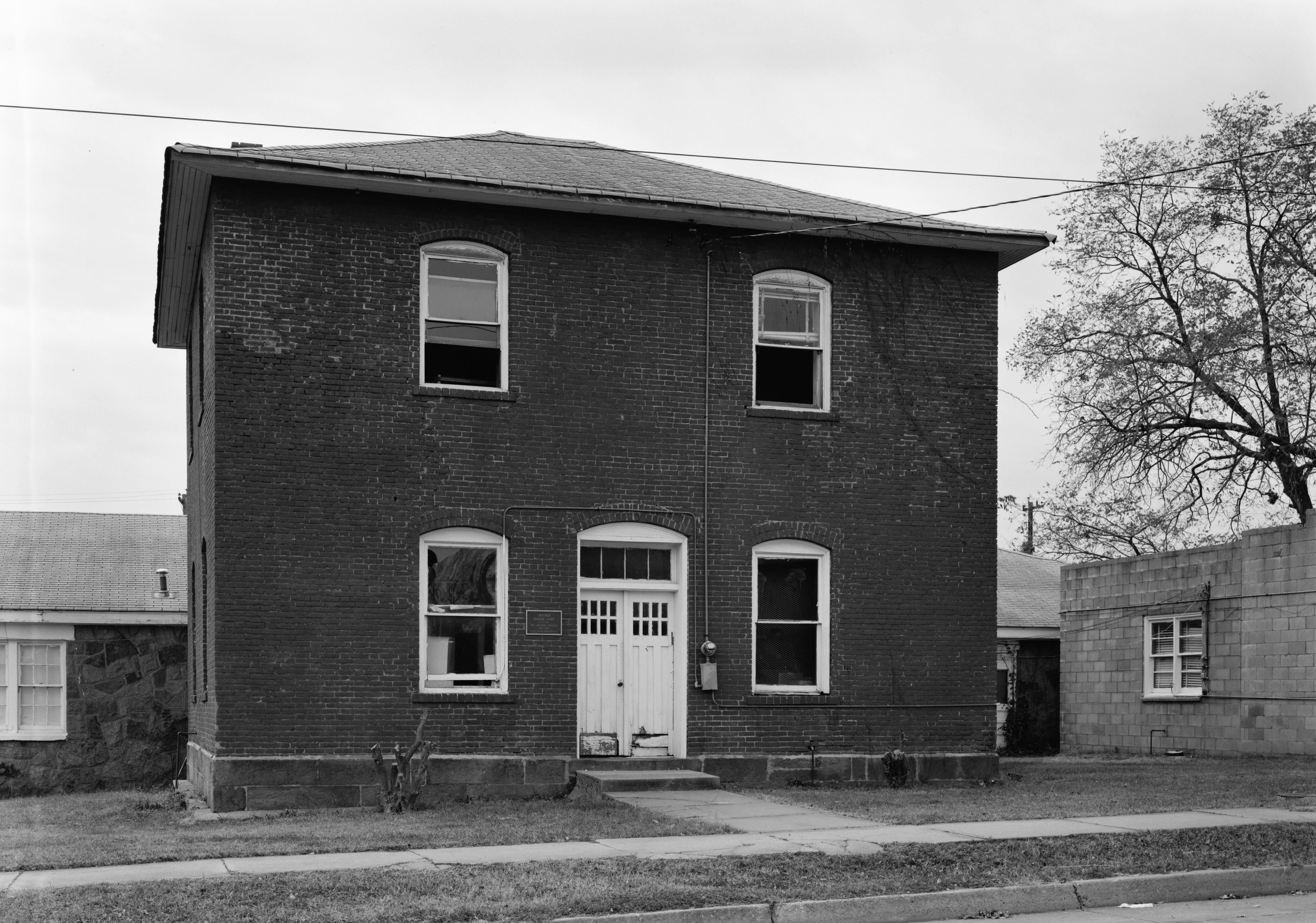 Front and side of the Cherokee Supreme Court Building, located at the intersection of Keetoowah Street and Water Avenue in Tahlequah, Oklahoma, United States. Built in 1844, it is listed on the National Register of Historic Places.